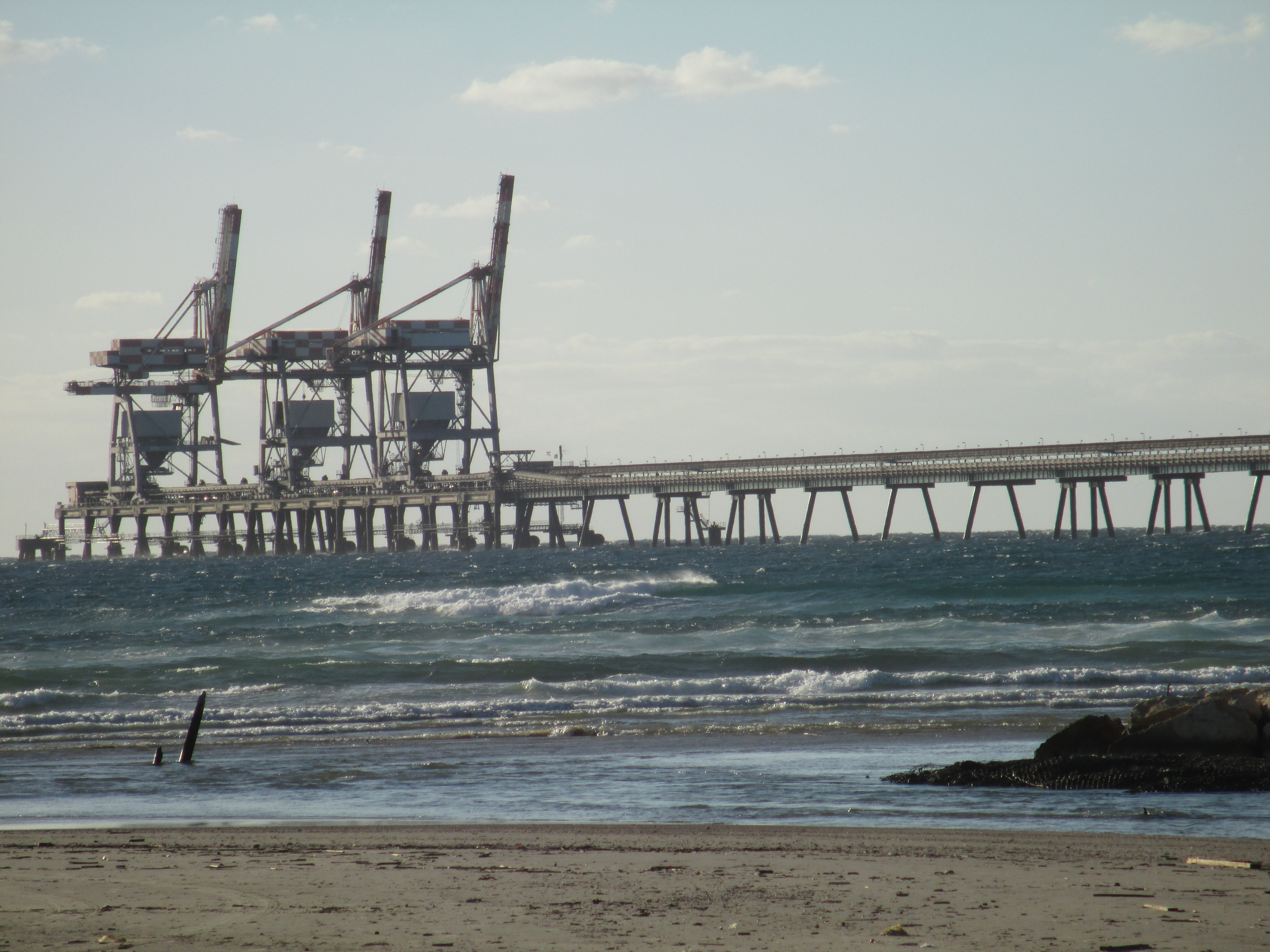 Orot Rabin Power Station